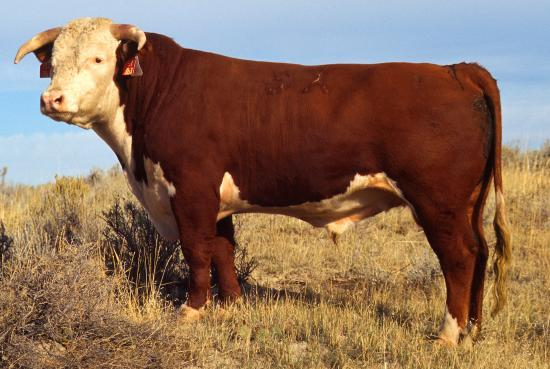 A picture of a Hereford bull. Taken by the US Department of Agriculture. Thumbnail at Image:Hereford_bull_thumb.jpg.